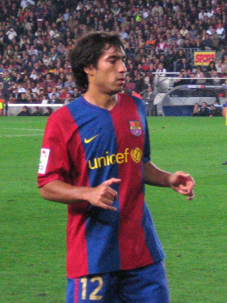 Futbol Club Barcelona's player Giovanni van Bronckhorst during the match FC Barcelona-Villareal CF.